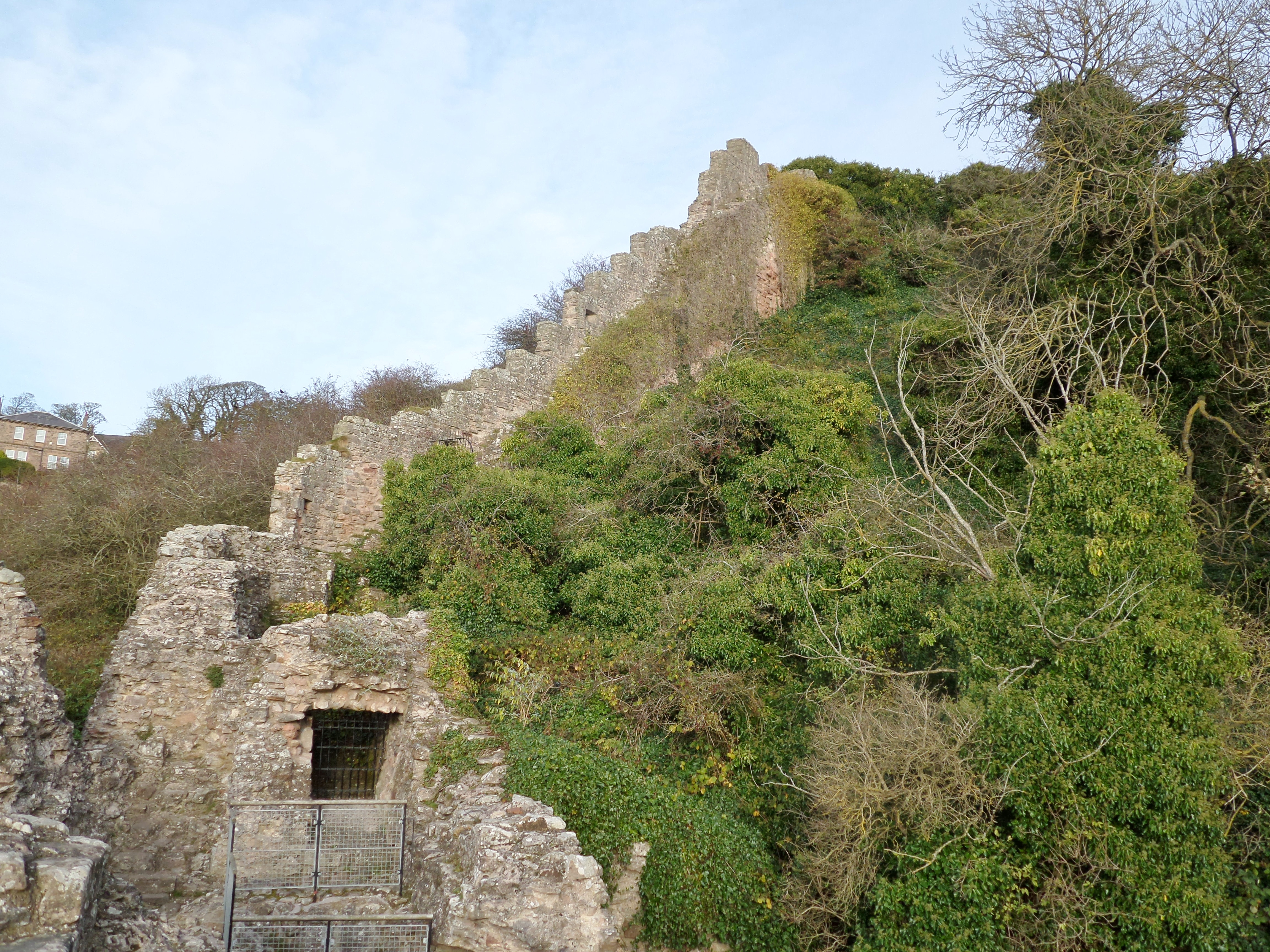 Berwick Castle 'Breakneck Path' and wall, Berwick-upon-Tweed, Northumbria